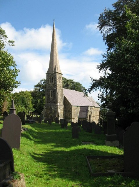 Llanwenllwyfo Church. Llanwenllwyfo church is close to Dulas.